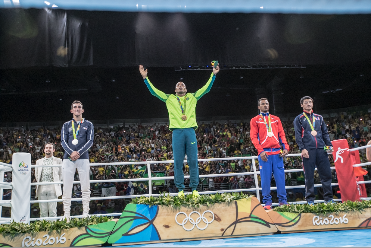 Medal Ceremony Men's 60 kg